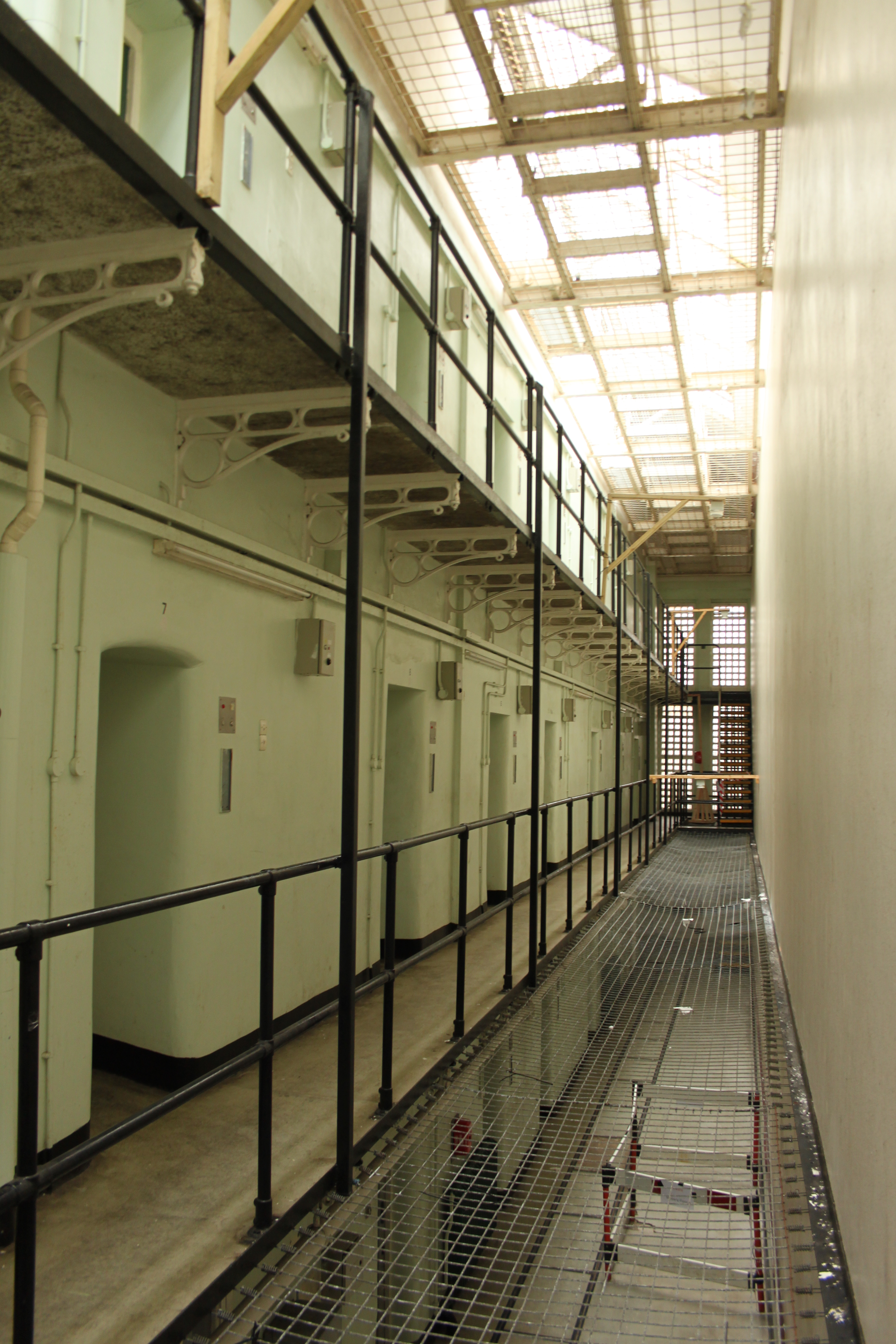 Photos of HMP Shepton Mallet taken March 2018